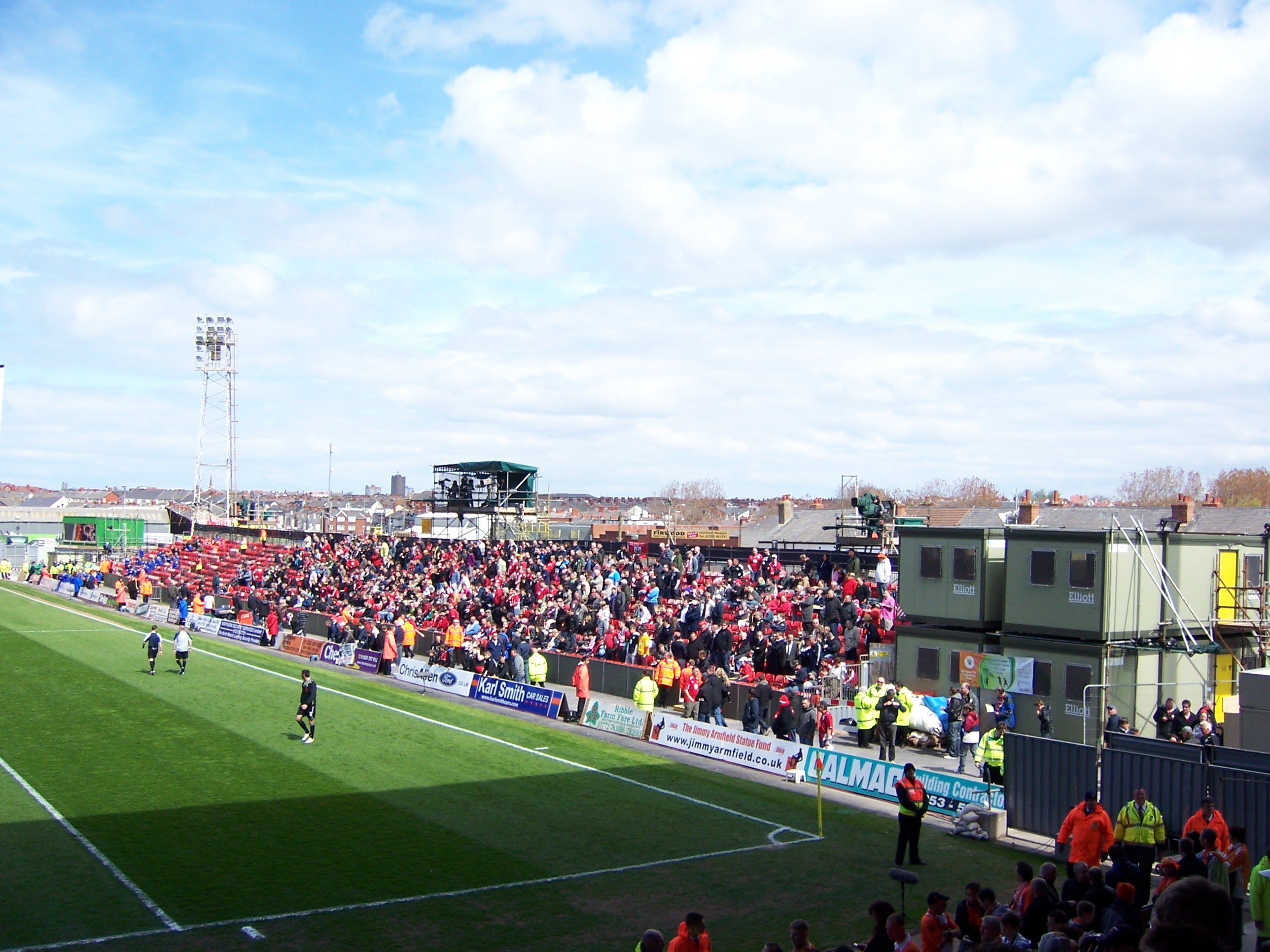 East Stand at Bloomfield Road, Blackpool - 2009/10 This 'temporary / semi-permanent' stand is used by the 'away' supporters at Bloomfield Road ... it is known, by the 'home' fans, as the Gene Kelly stand as very often the away supporters are left 'singing in the rain'!!! The green box at the far end is a temporary studio being used by Sky TV who were televising the match. The 'on-high' structure in the middle is for TV Cameras ... the four 'box buildings' on the right are part of the constructor's offices working on the South Stand.